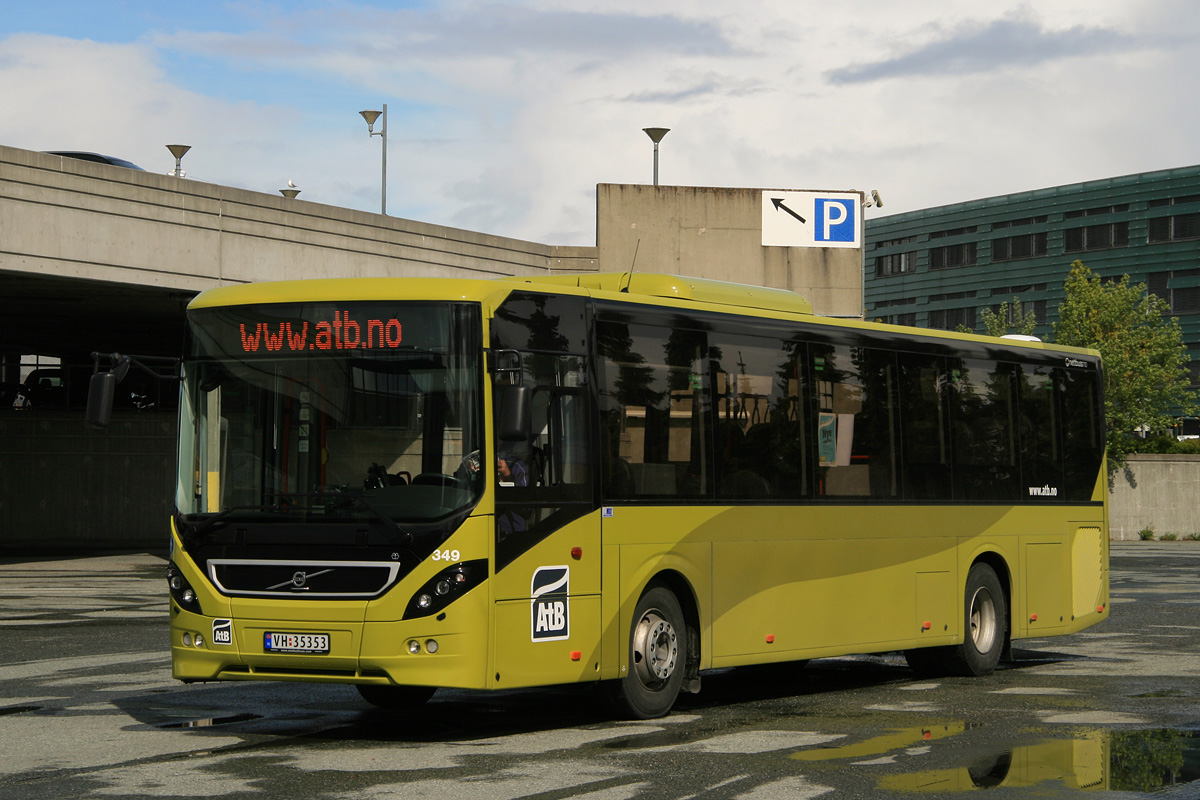 Volvo 8900LE B7RLE from Nettbuss Trøndelag in AtB livery.